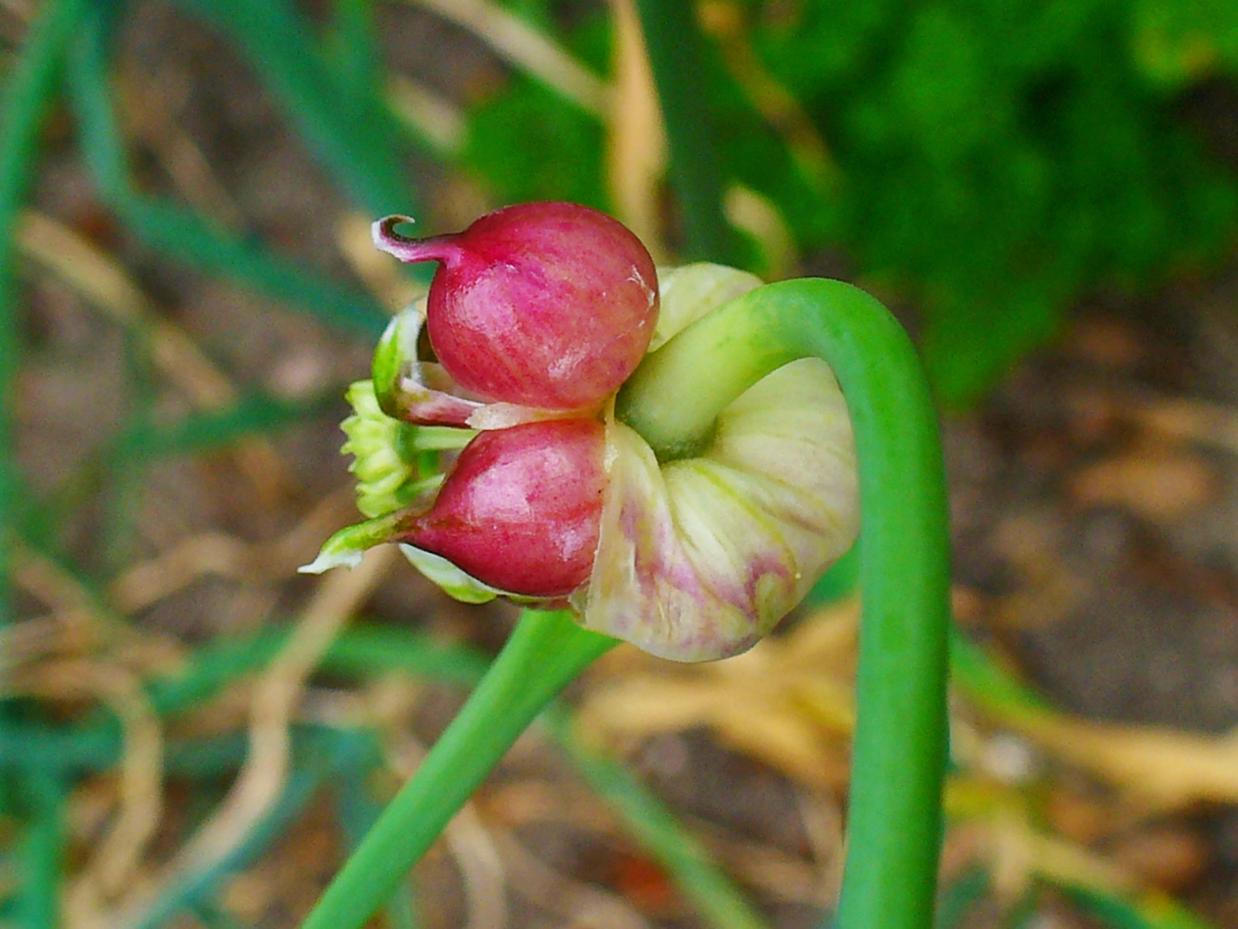 Allium sativum, Alliaceae, Garlic, bulbils; Karlsruhe, Germany. The fresh bulbs are used in homeopathy as remedy: Allium sativum (All-s.)